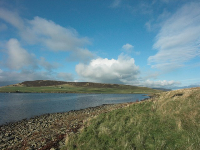 Millburn Bay from Hen of Gairsay, Gairsay, Orkney Islands